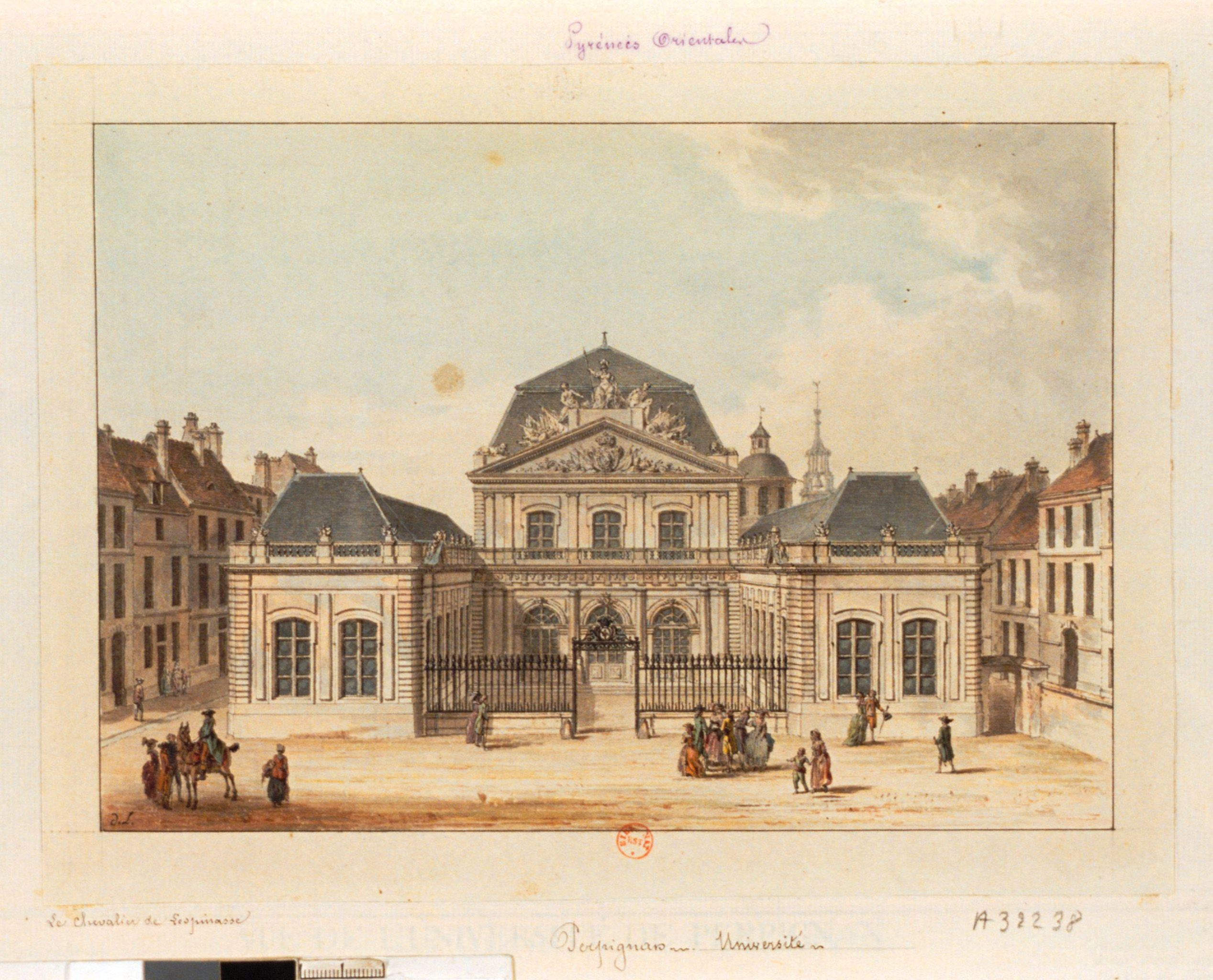 Lespinasse, Louis-Nicolas de (1734-1808), Perpignan. Université dessin Famille Le Clerc, built by Augustin-Joseph de Mailly.